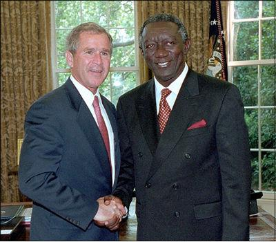 President Bush greets President John Agyekum Kufuor of Ghana in the Oval Office June 28, 2001. White House photo by Eric Draper.